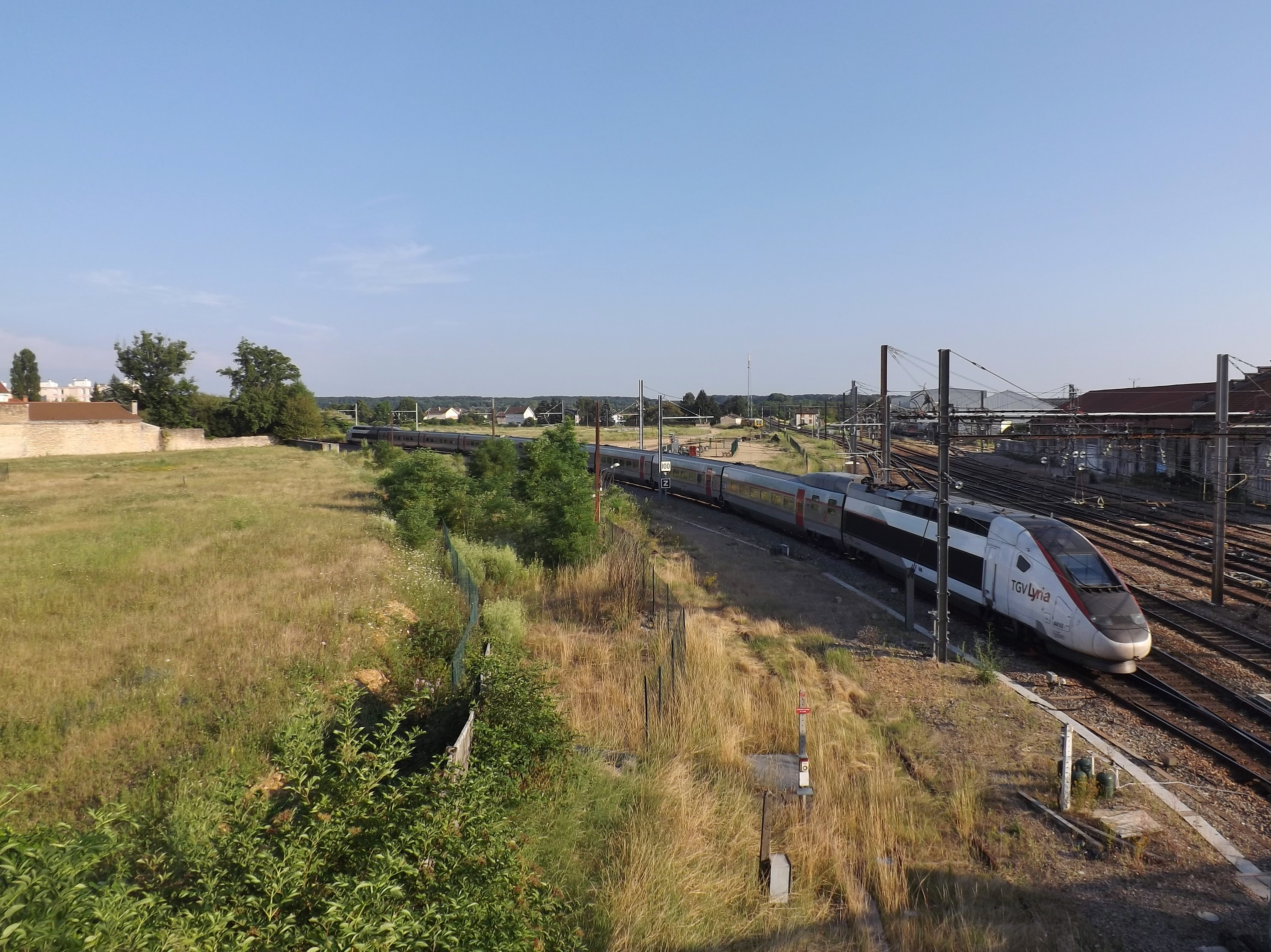 Sight in the evening, of a French TGV Lyria coming from Geneva (Switzerland) and moving towards Paris (France), arriving at Bourg-en-Bresse (Ain) at the end of the ligne du Haut-Bugey line.